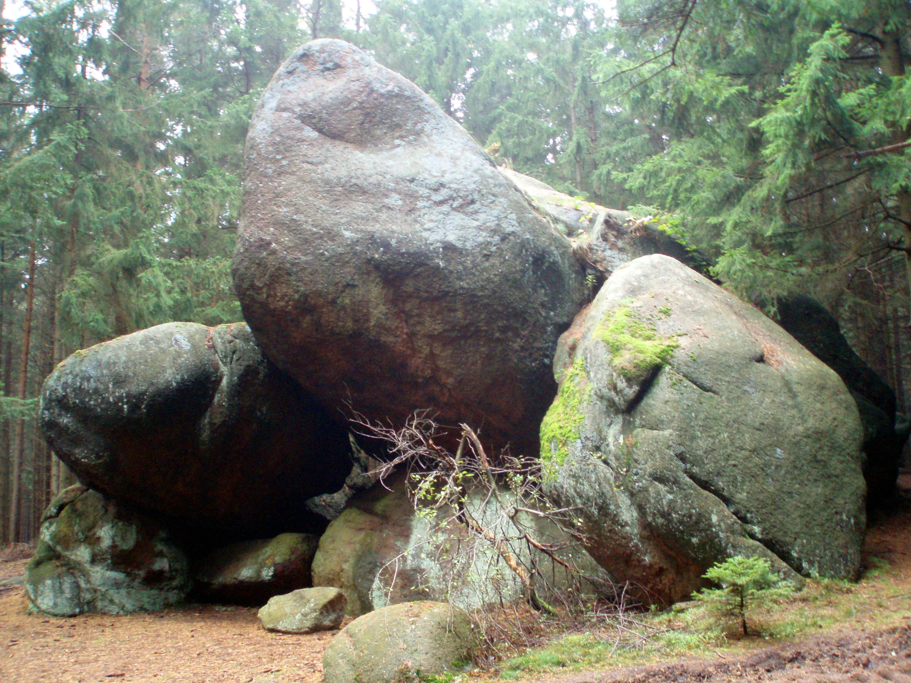 The Froschfelsen rocks near Ilsenburg in the Harz Mountains of Germany. Their name, which means "Frog Rocks" derives from their appearance.